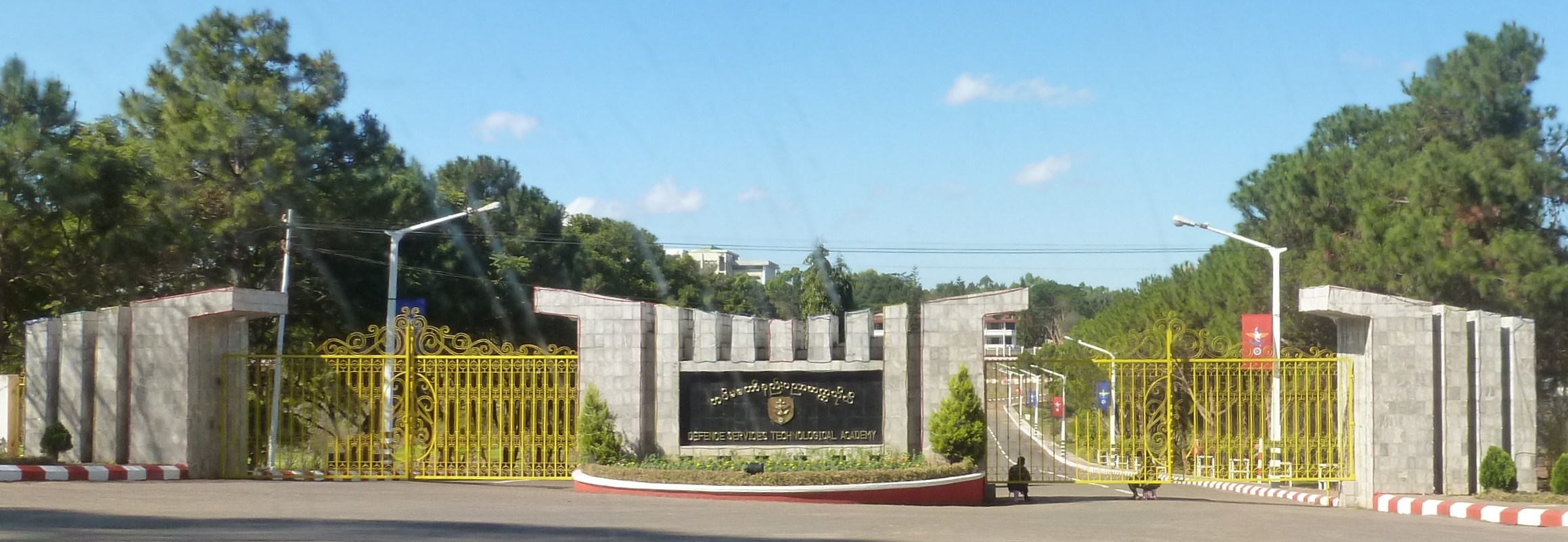 Defence Services Technology Academy, front gate